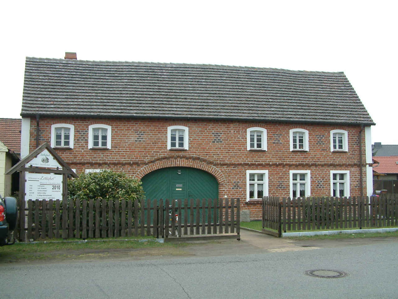 Exterior view of the Court in Zeißig-Zeißig, District of Hoyerswerda.